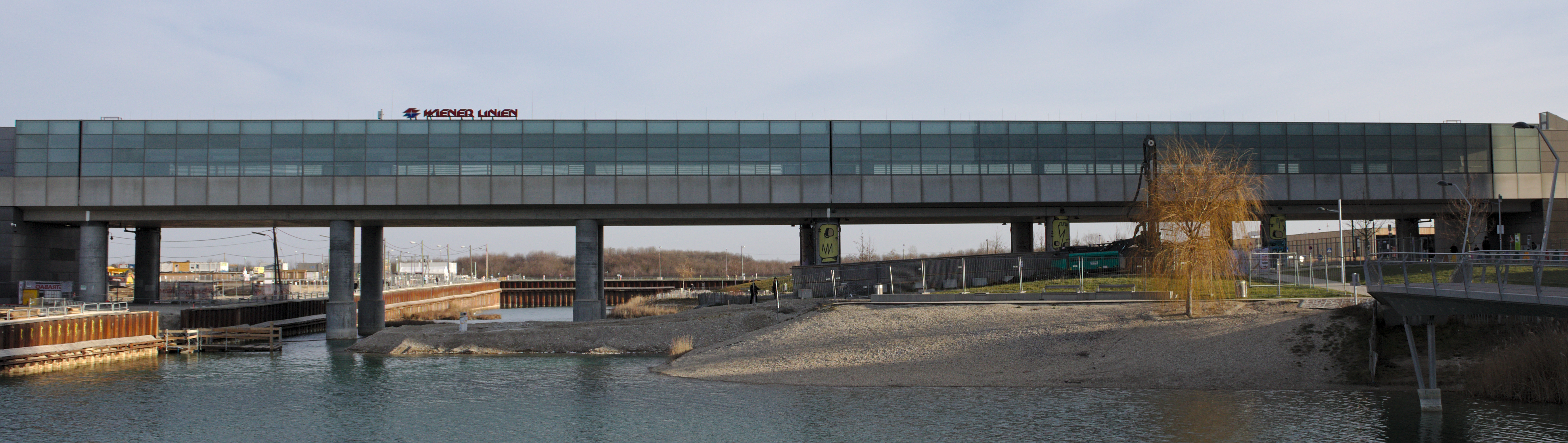 U-Bahn-Station_Seestadt_Vienna_19-20